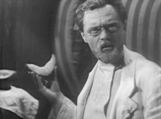 Fedor Nikitin as Bachei in Beleet parus odinoky (1937)